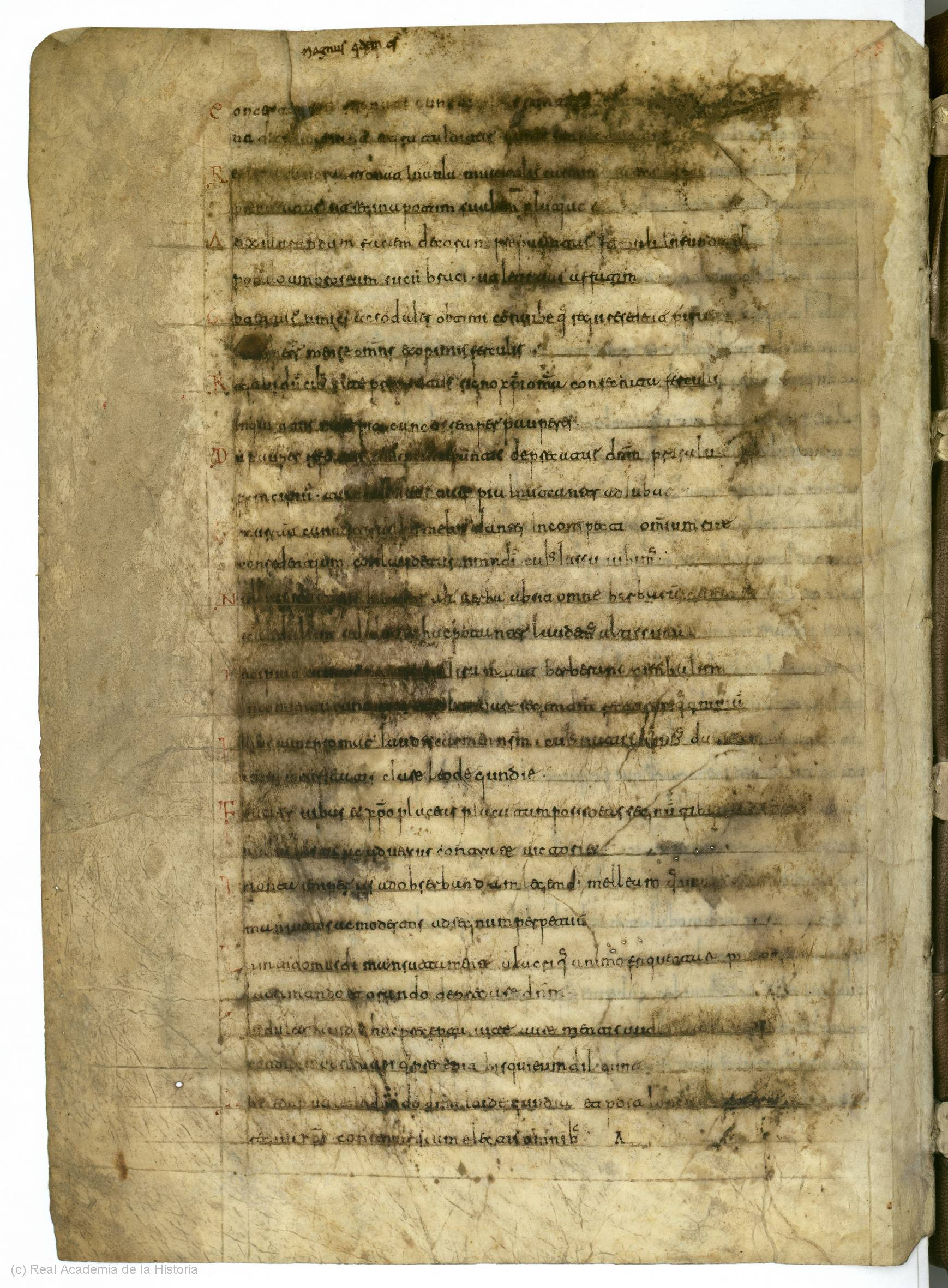 Leodegundia Nafarroako erreginaren eztei-kantua, Roda Codex, bigarren orria, kantuaren amaiera.